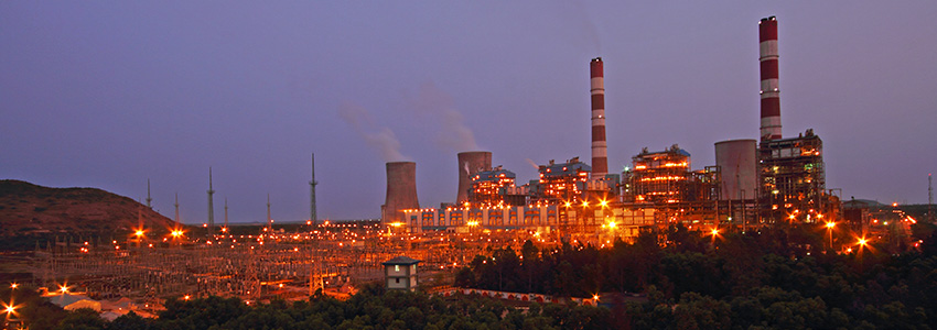 N.T.P.C Simhadri Super Thermal PowerPlant at Paravada